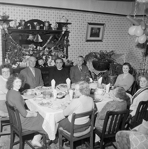 Teitl Cymraeg/Welsh title: Dathlu'r Calan Hen yng Nghwm Gwaun Ffotograffydd/Photographer: Geoff Charles (1909-2002) Dyddiad/Date: 19/1/1961 Cyfrwng/Medium: Negydd ffilm / Film negative Cyfeiriad/Reference: (gch22984) Rhif cofnod / Record no.: 3470798 Rhagor o wybodaeth am gasgliad Geoff Charles yn Llyfrgell Genedlaethol Cymru More information about the Geoff Charles Collection at the National Library of Wales Mae ffotograffau Geoff Charles hefyd yn rhan o Broject Europeana Libraries Geoff Charles' photographs also form part of the Europeana Libraries Project